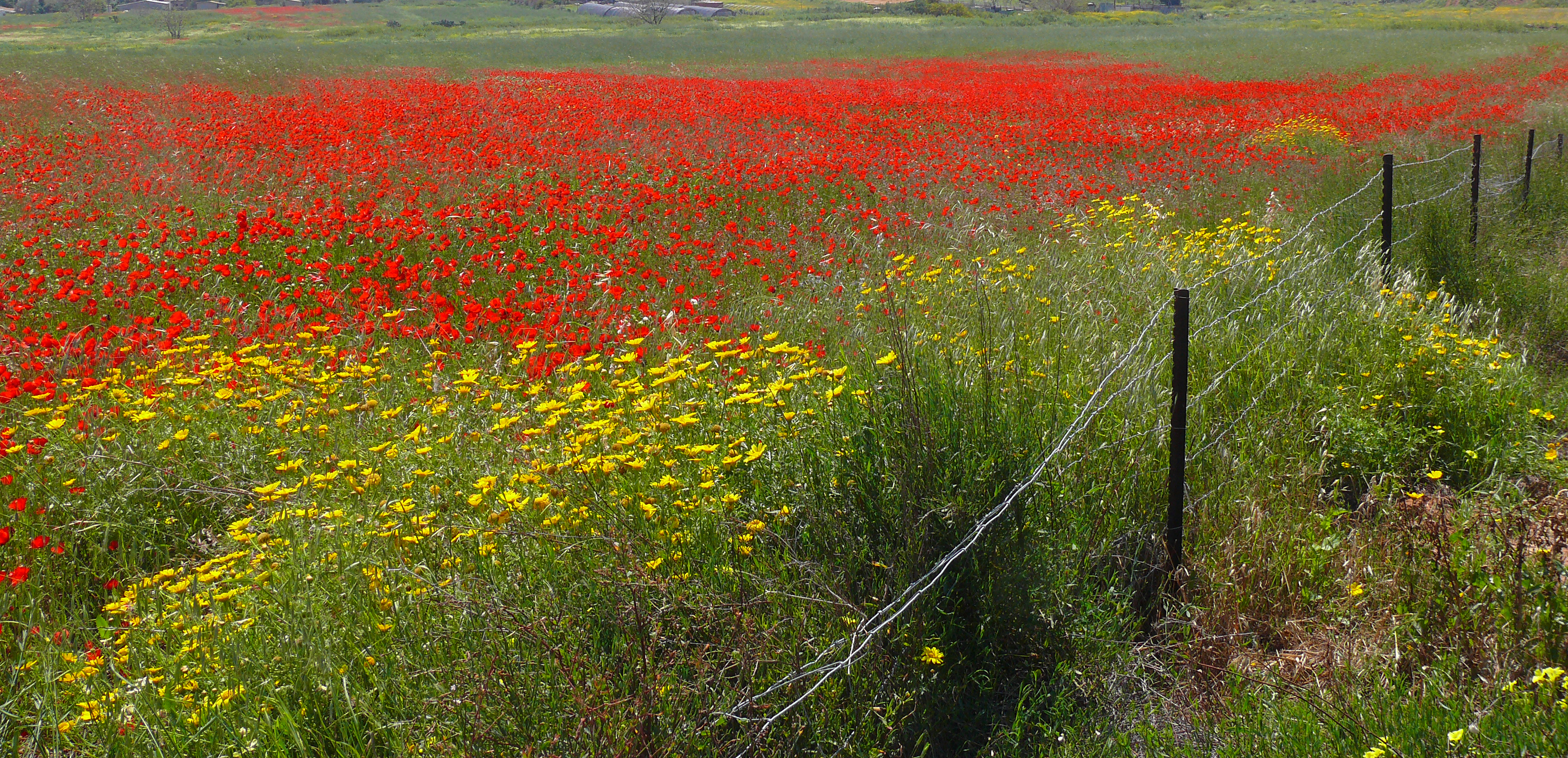 Red "carpet" of Papaver umbonatum